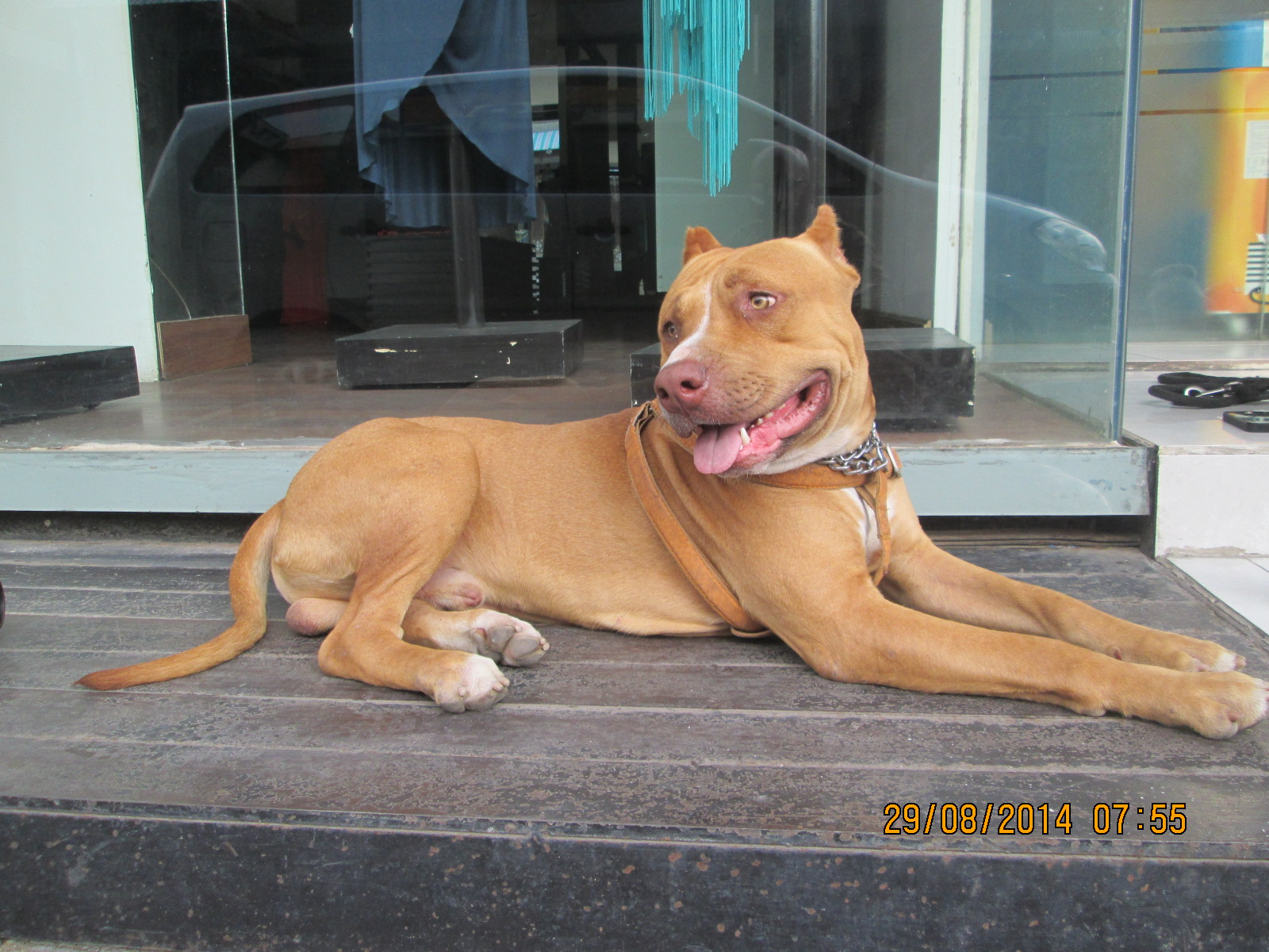 A pure bred docile pit bull terrier in Ubud in Bali.